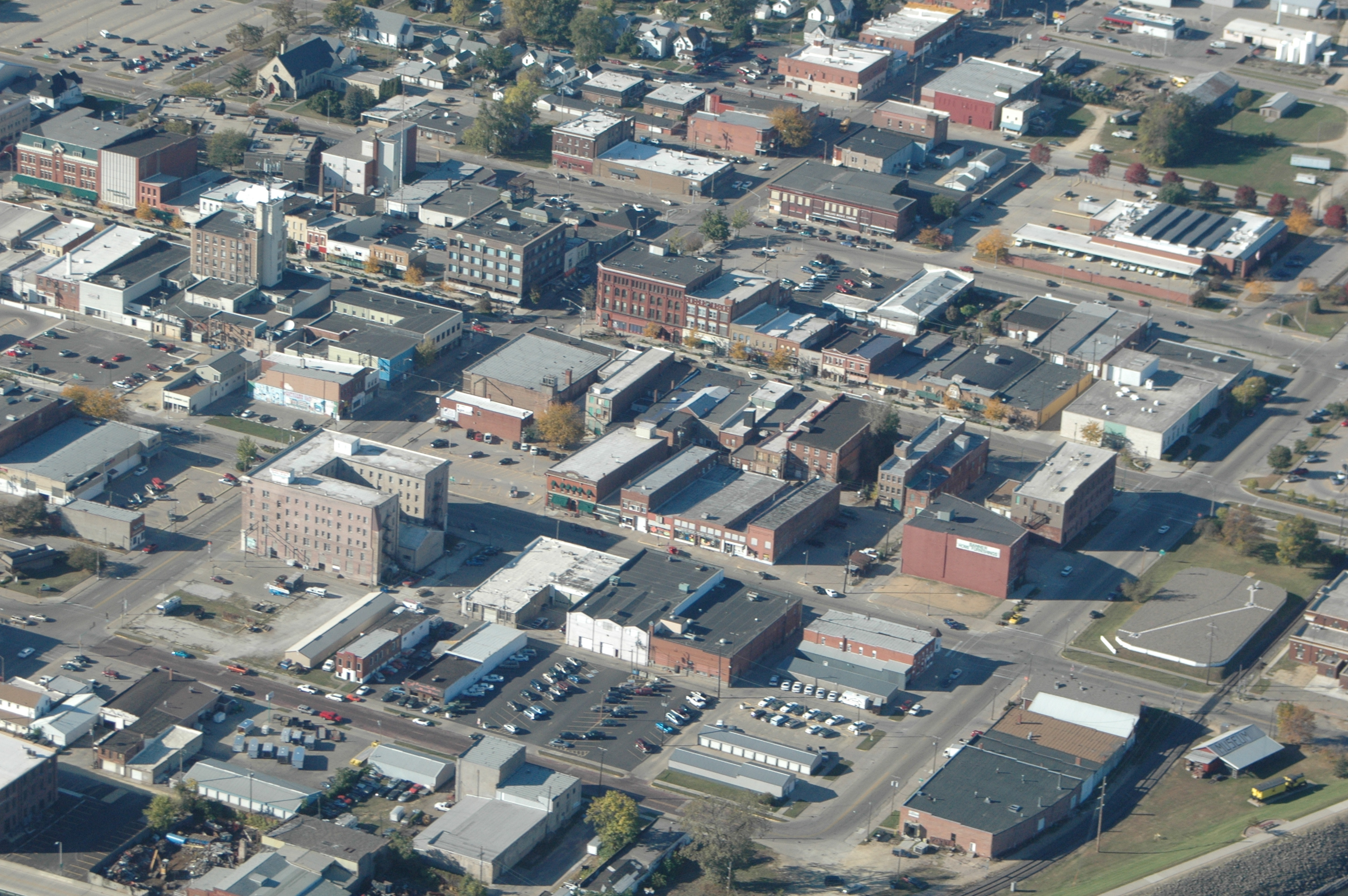 Downtown Clinton closeup